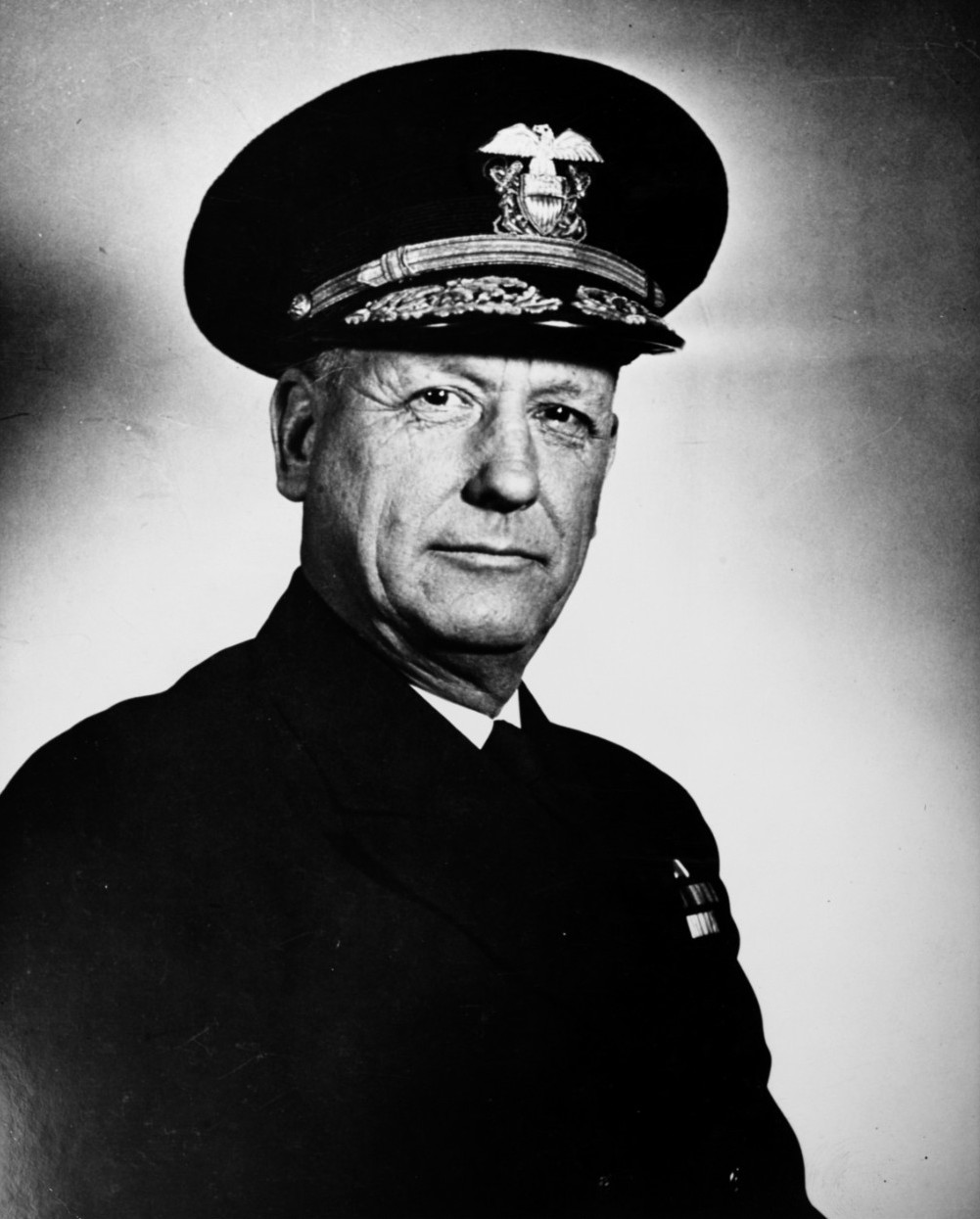 Official Portrait of Vice admiral Carlton F. Bryant, USN